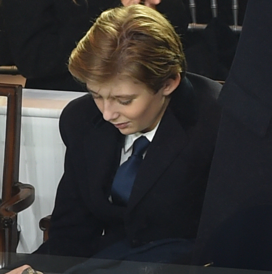 President Donald J. Trump waves to the crowd from the White House reviewing stand during the inaugural parade on Pennsylvania Avenue in Washington, D.C., Jan. 20, 2017. More than 5,000 military members across from all branches of the armed forces of the United States, including Reserve and National Guard components, provided ceremonial support and Defense Support of Civil Authorities during the inaugural period. (DoD photo by U.S. Air Force Staff Sgt. Logan Carlson)